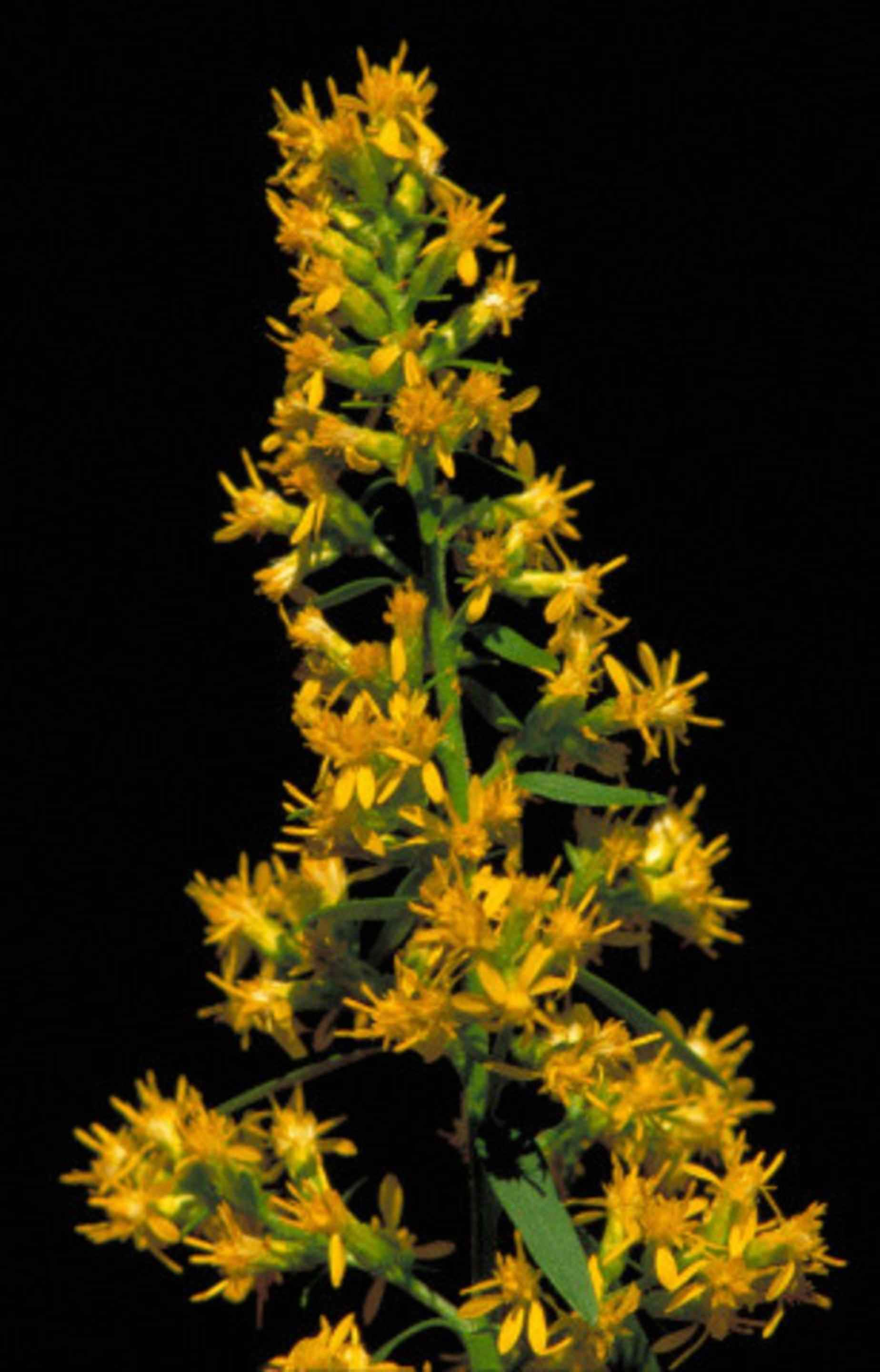 Image title: Showy goldenrod plant solidago speciosa Image from Public domain images website